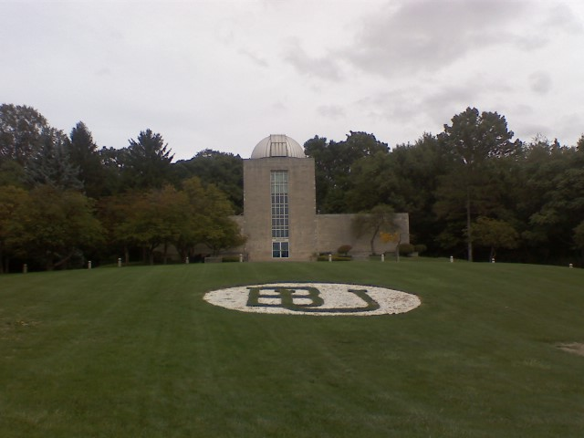 Holcomb Observatory